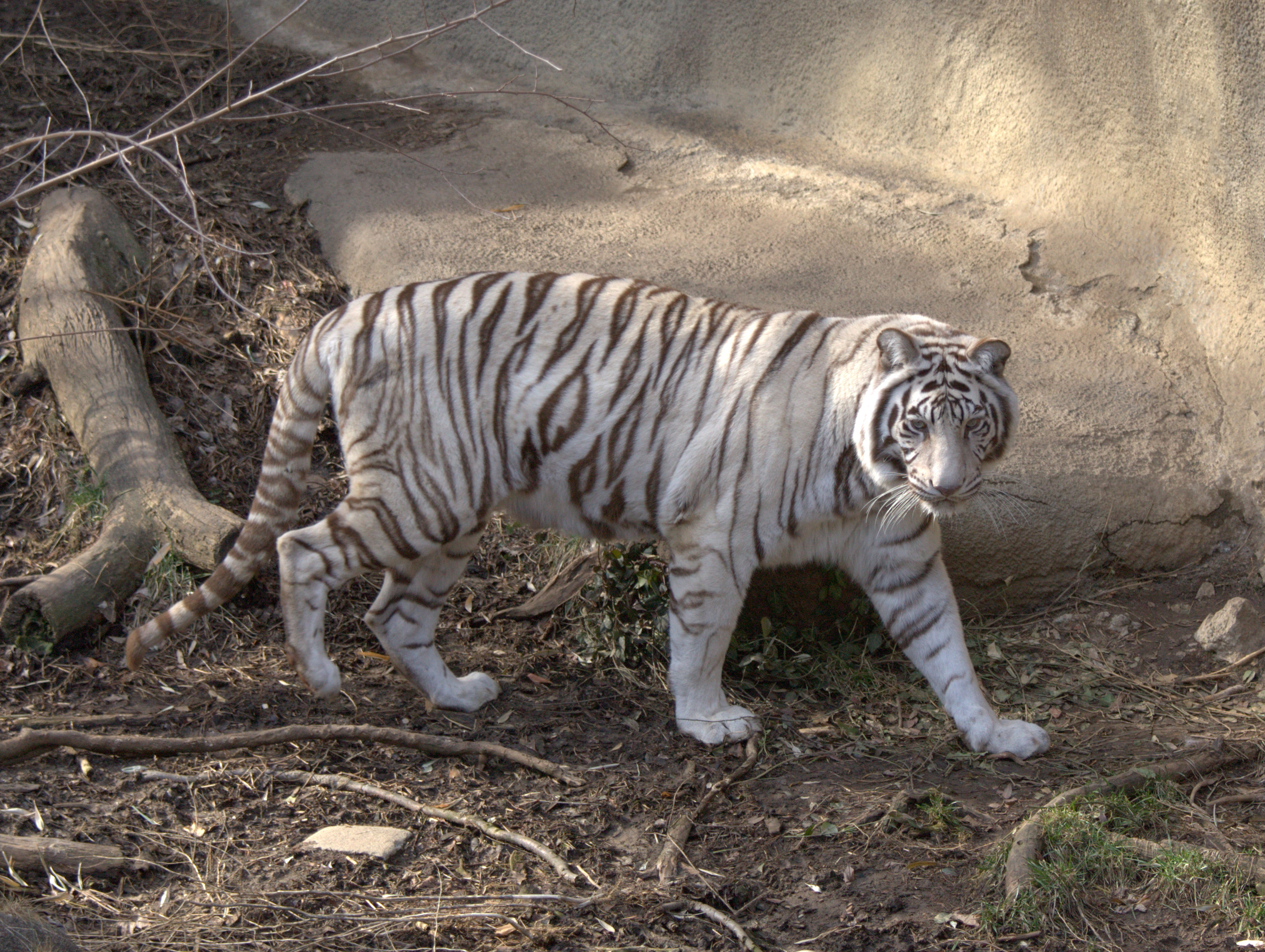 Captive white tiger at the Cincinnati Zoo.